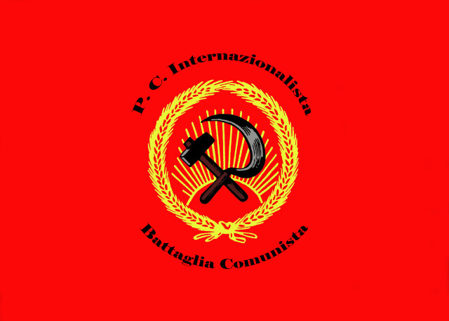 Flag of Battaglia Comunista